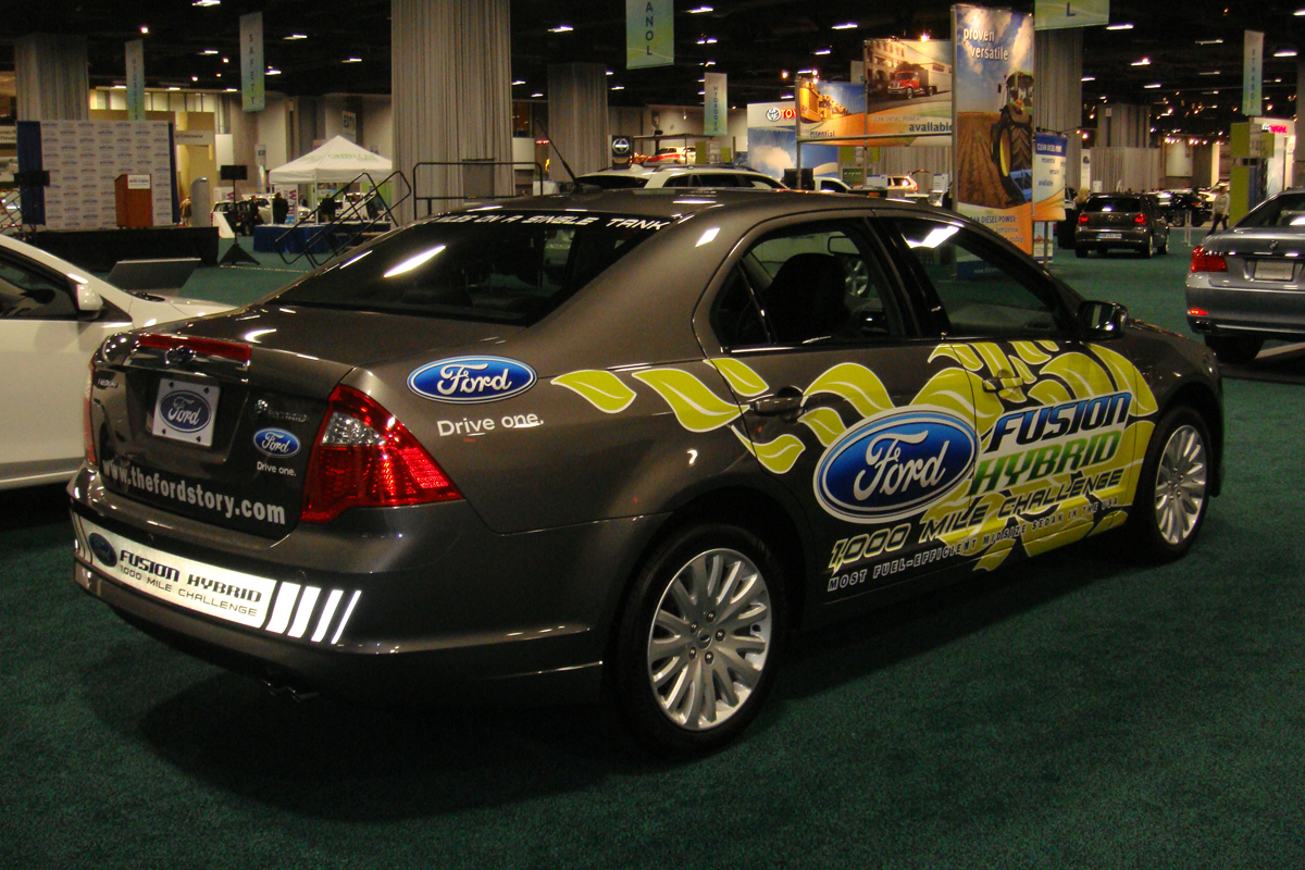 2010 Ford Fusion Hybrid promotional vehicle involved in the 1000 mile challenge, exhibited at the 2010 Washington Auto Show.